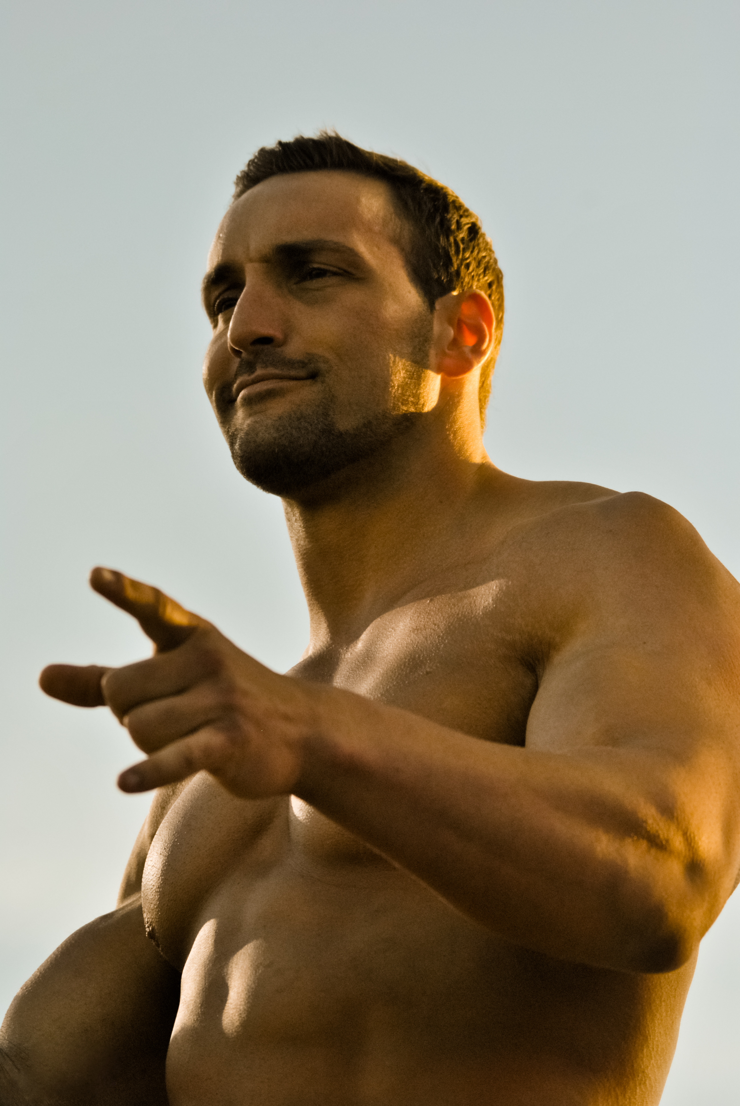 Chris Masters at WWE's Tribute to the Troops 2010 show at Fort Hood in Texas.